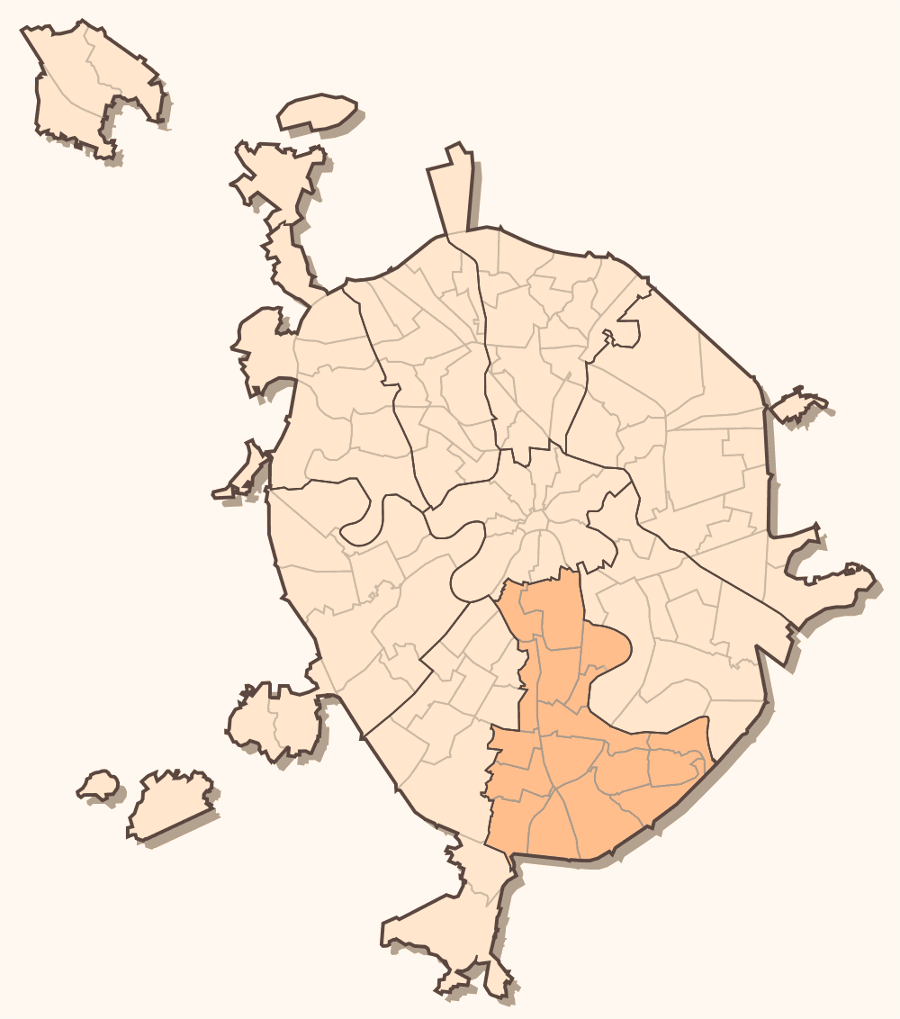 Moscow districts map